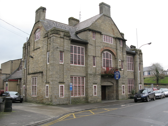 Town Hall, Cavan Town, County Cavan, Ireland The Town Hall was built in 1909 and served as Cavan's first movie house